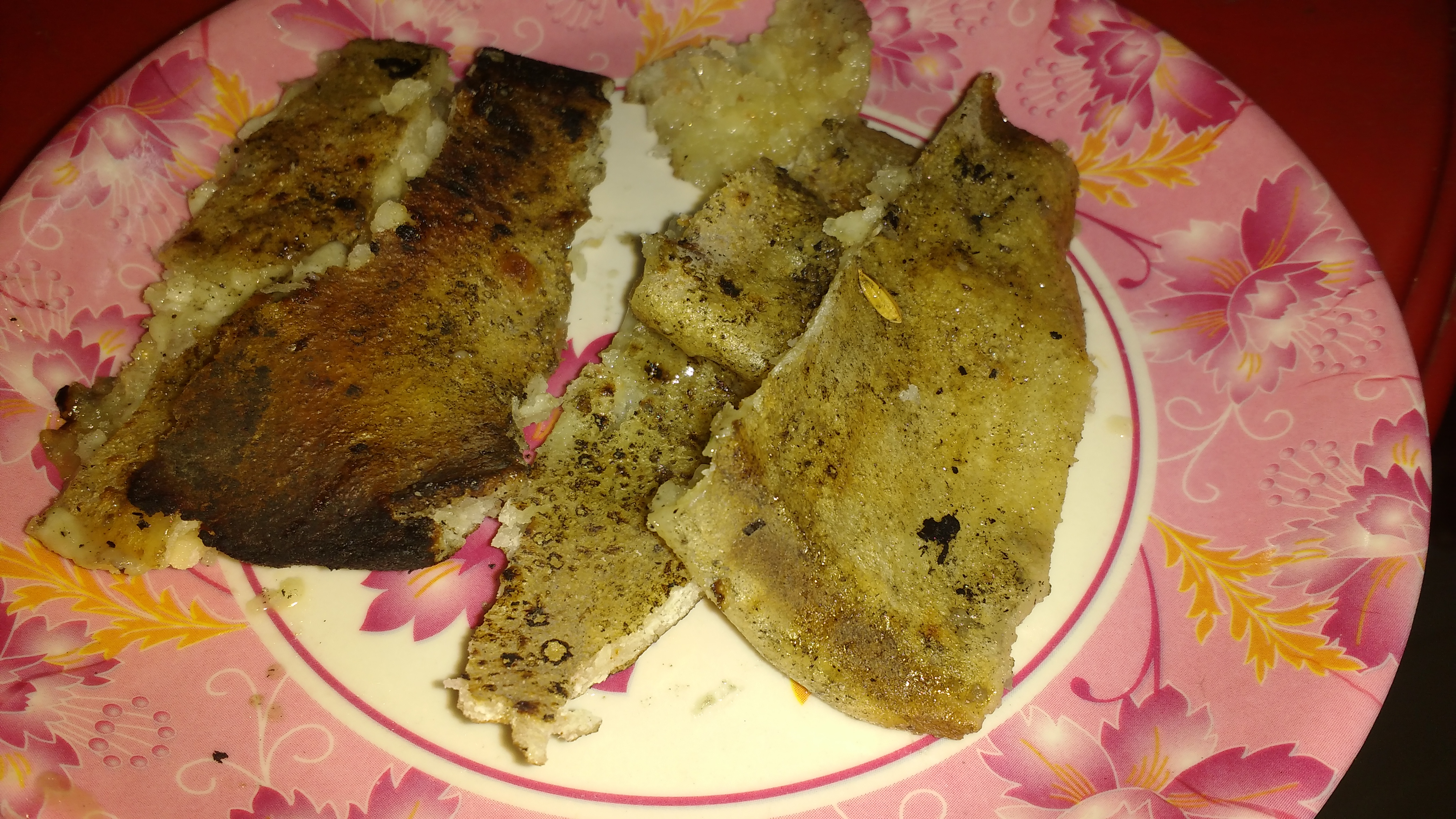 Kanal Ada from Kanjangad, Kasargod